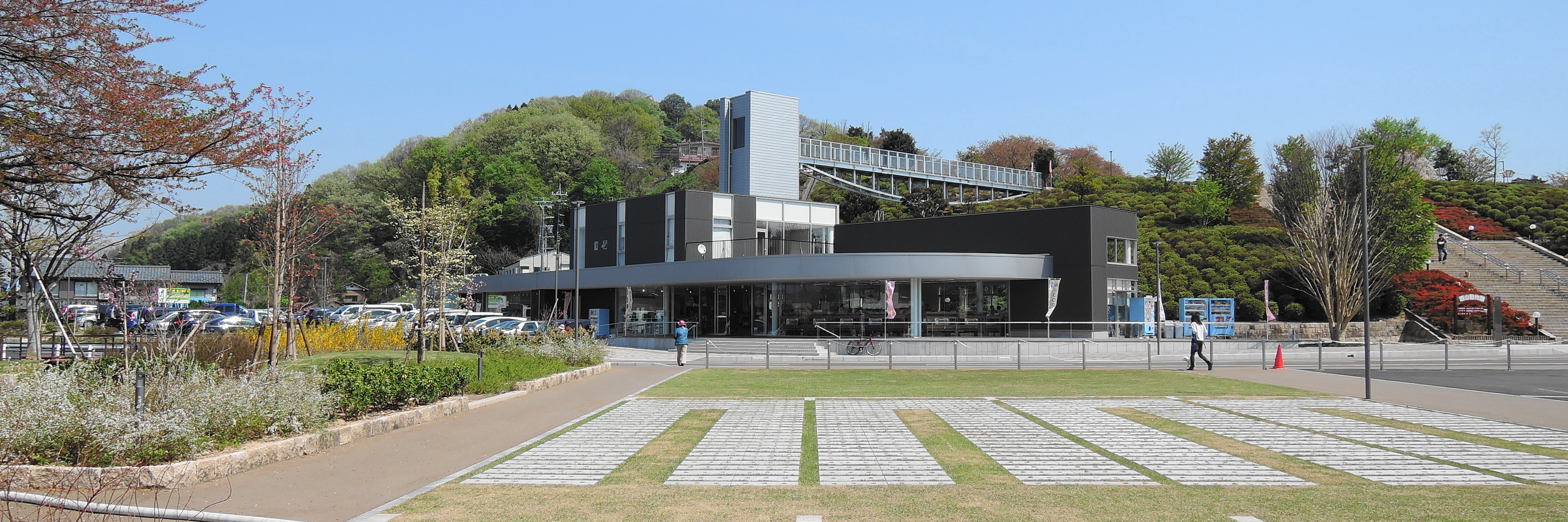 Roadsaide station Nishiyama park,Fukui prefecture,Japan